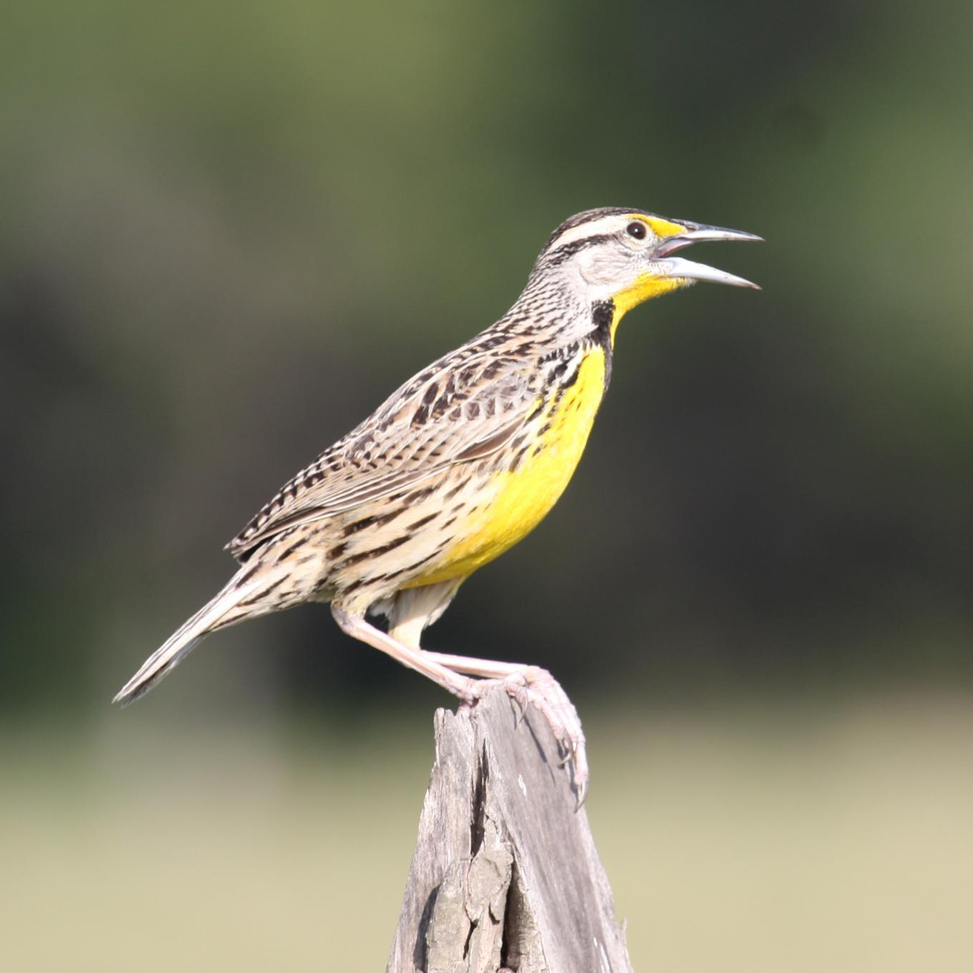 An Eastern Meadowlark in Mexico.